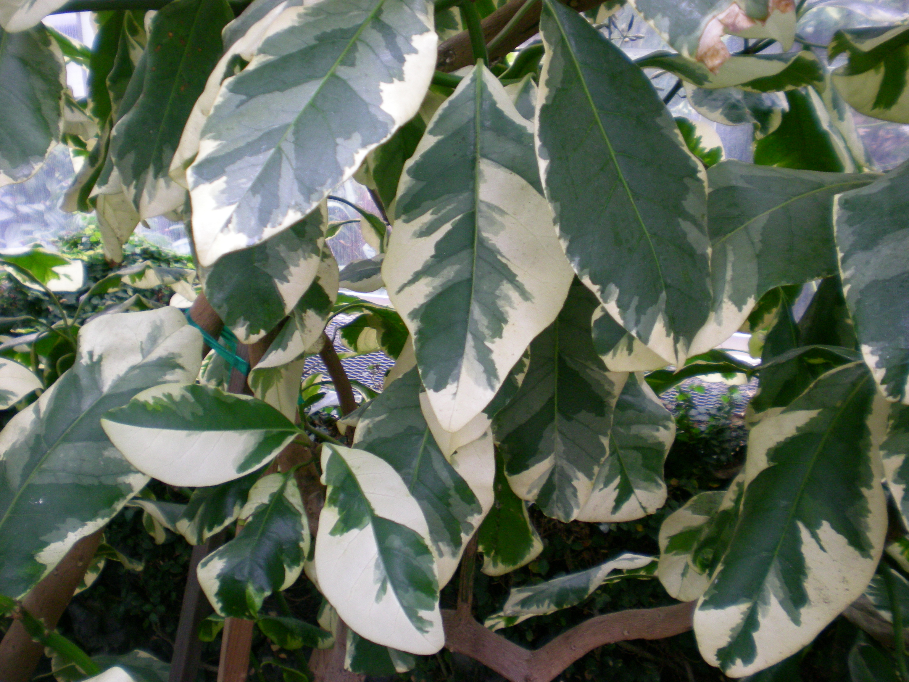 Leaves of the Pisonia umbellifera variegata, Variegated Birdcatcher Tree.